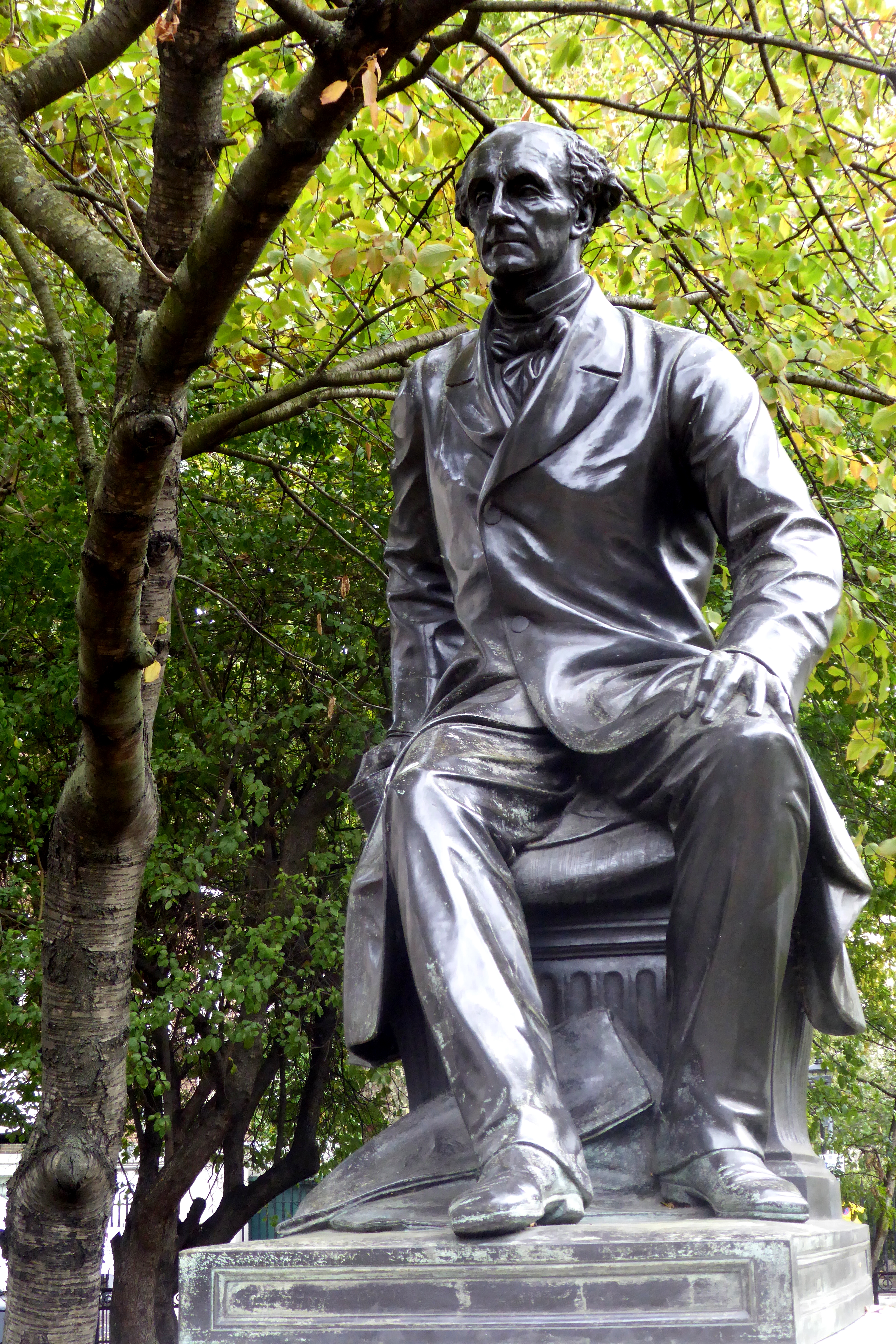 Statue of John Stuart Mill on Victoria Embankment